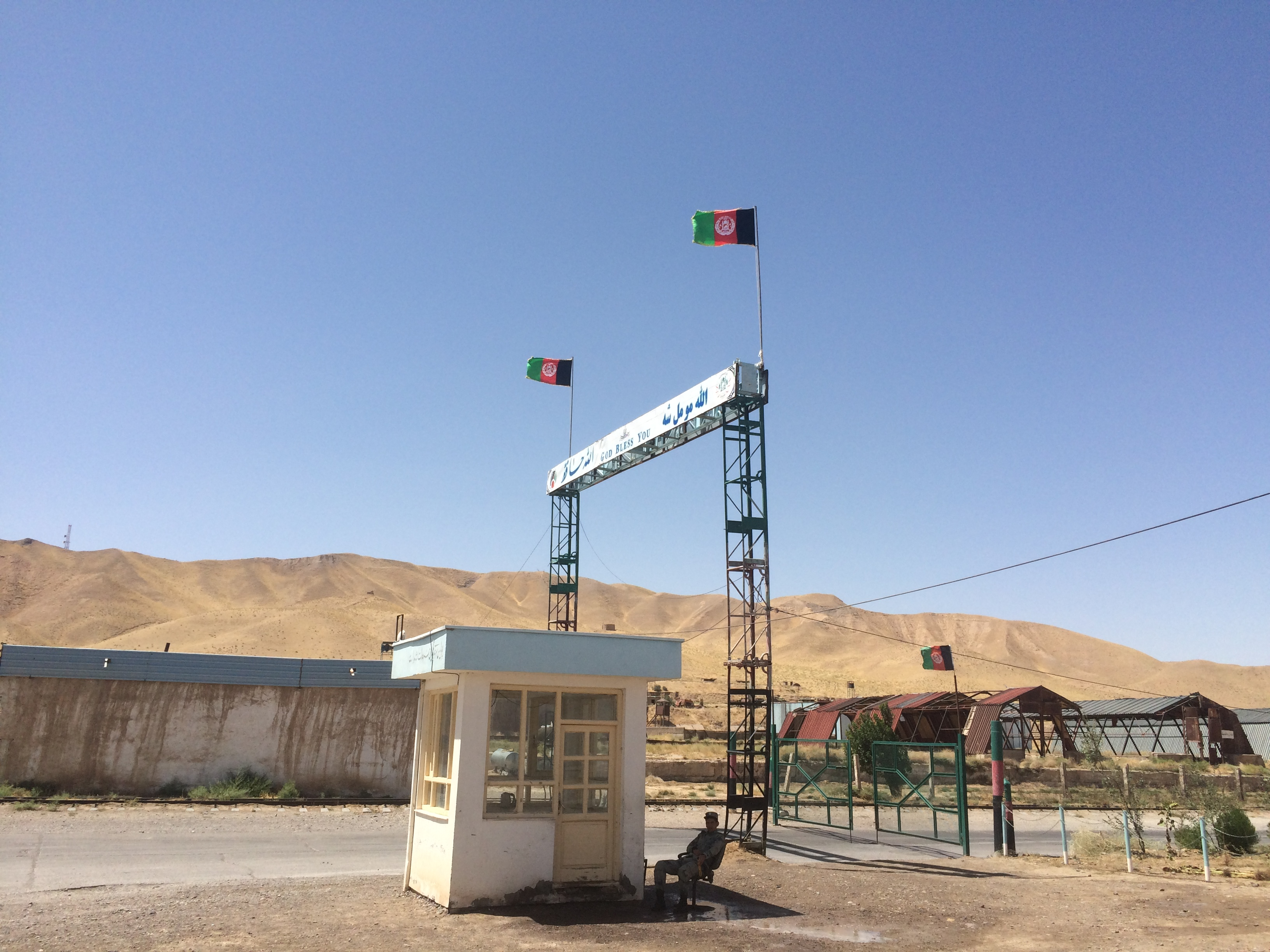 Towraghundi border towards Turkmenistan, Afghan side.